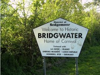 Town limits sign